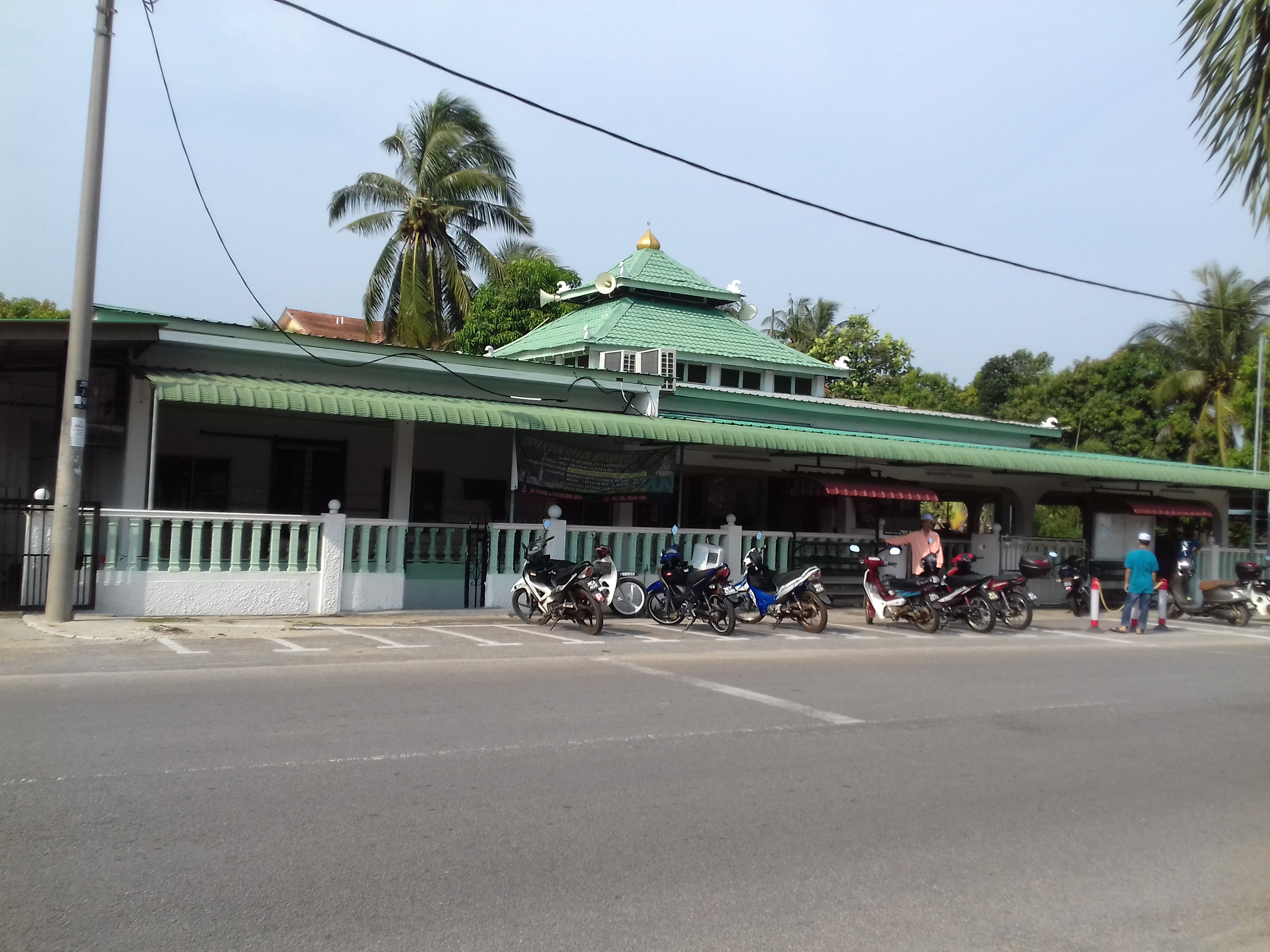 A photograph of ar-Rahman Mosque, Pulai taken on 21 March 2018.